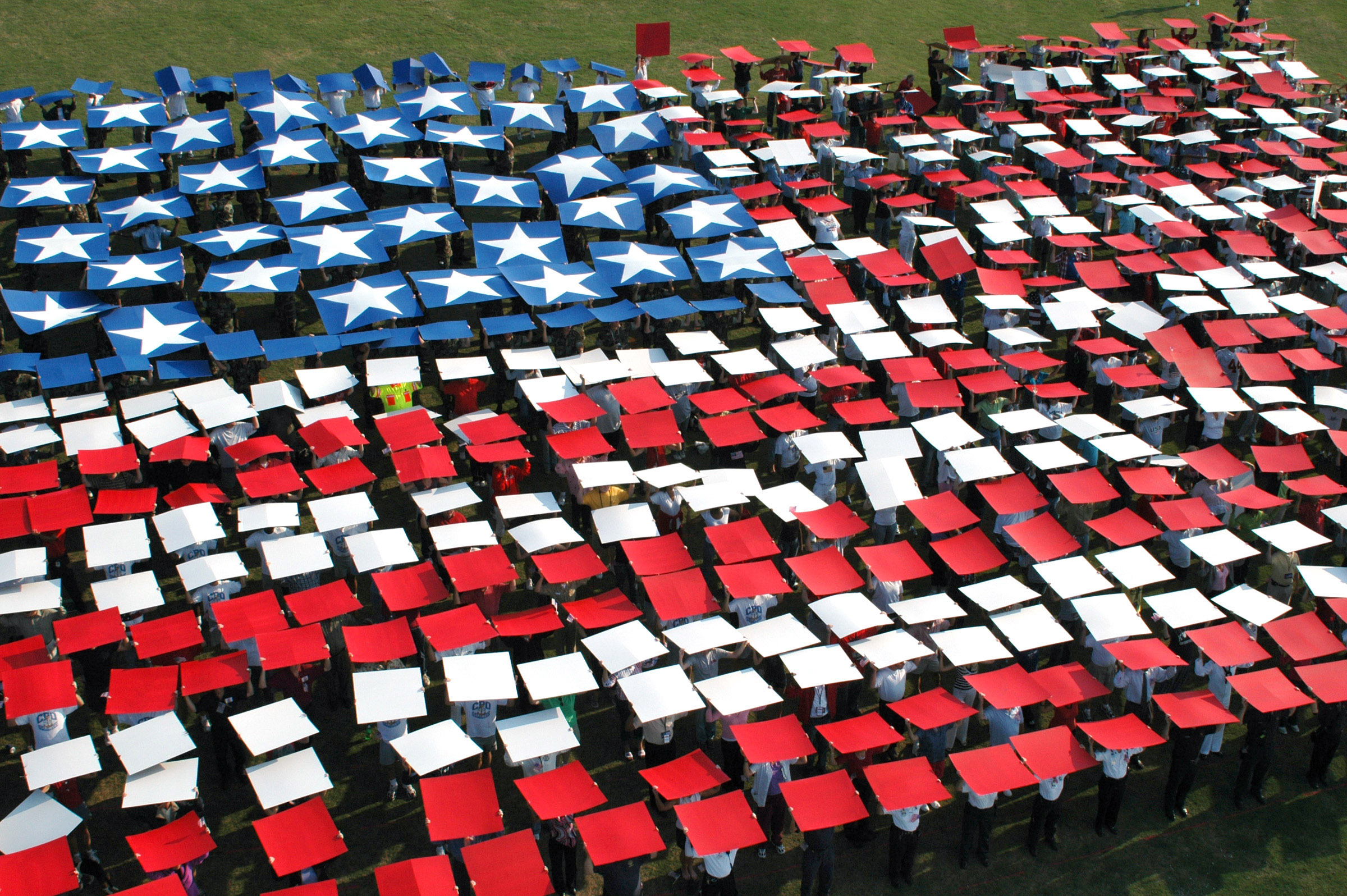 More than 1,200 service members, civic leaders, and civilians perform a card stunt of the U.S. flag during the "9/11 Hampton Roads Remembers" ceremony at Mount Trashmore Park, Virginia Beach, Va., Sept. 11, 2006.